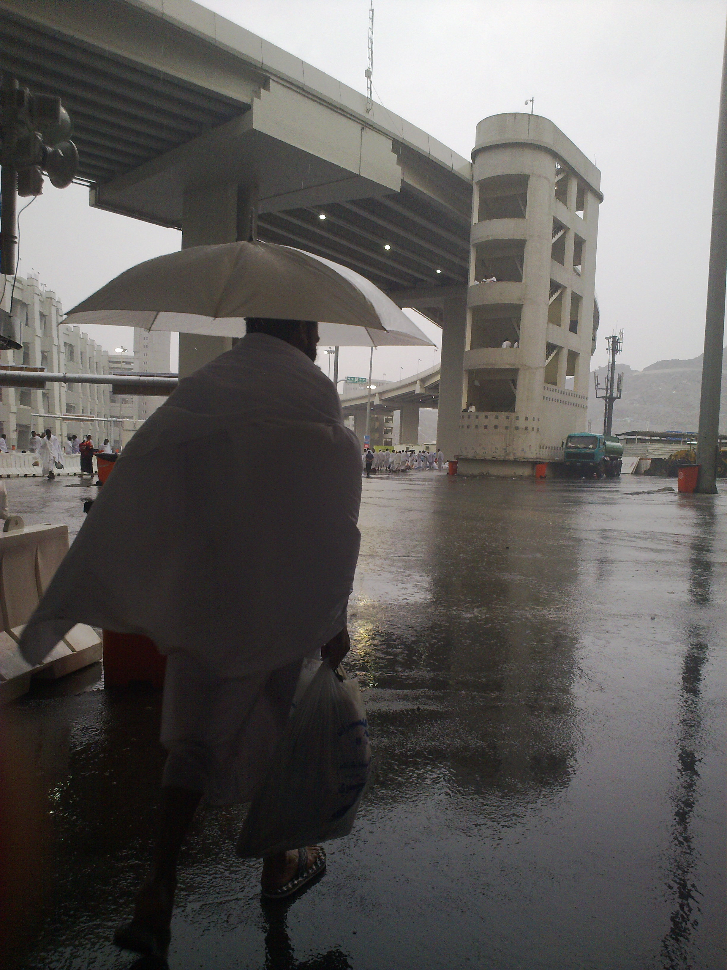 Photo by Omar Chatriwala